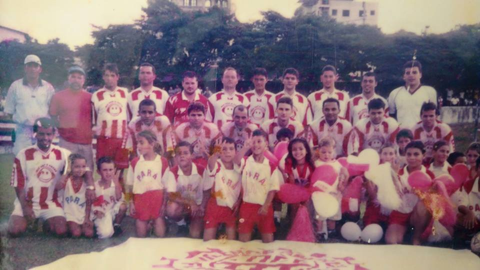 Vilense America, year 2000, the first team.